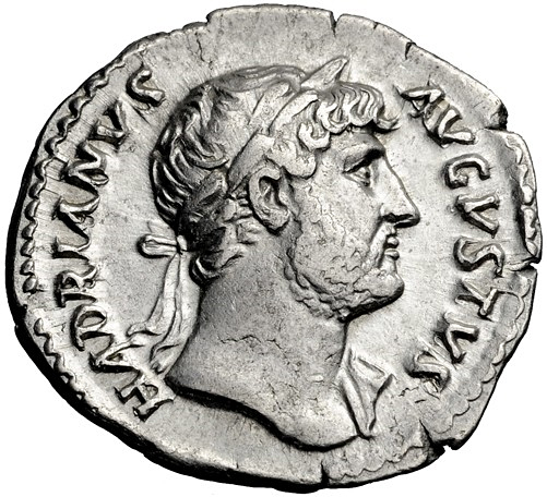 Roman imperial coin depicting Hadrian. More info here.